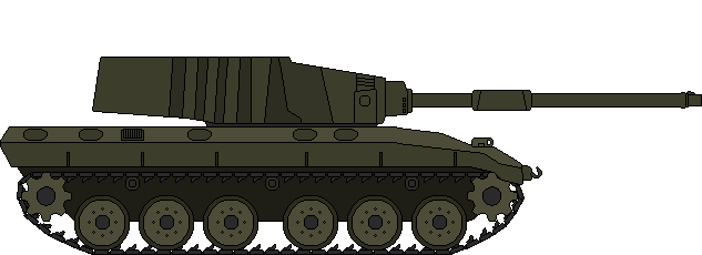 Drawing of MBT-80 ATR2 prototype main battle tank.